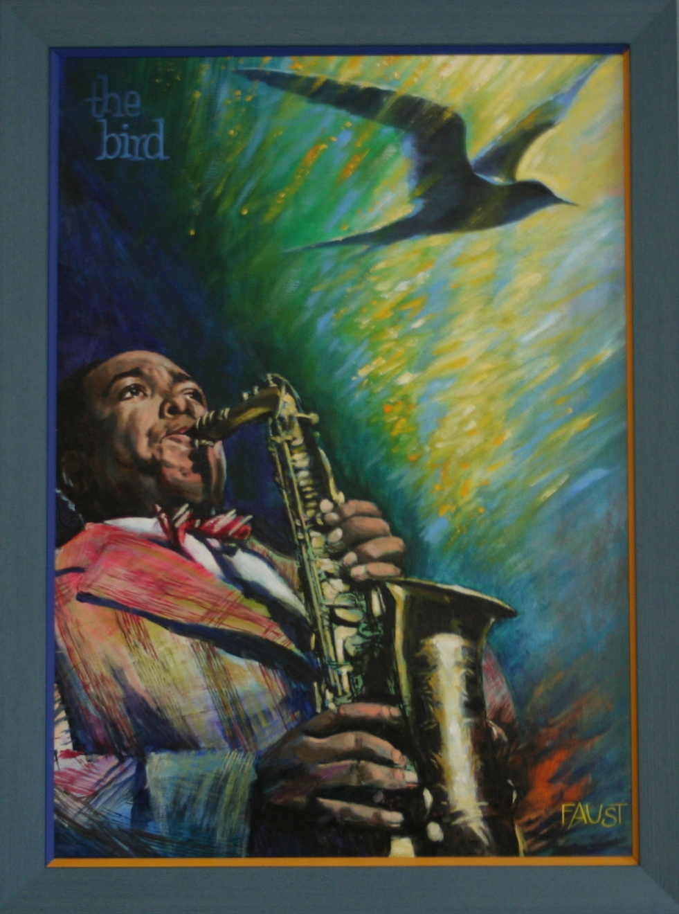 Painting by Berthold Faust, German painter, in honour of Charlie Parker.